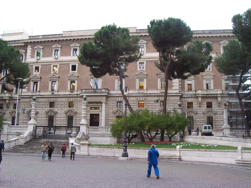 Rome - Palazzo del Viminale - Head office of the Ministry of Interior